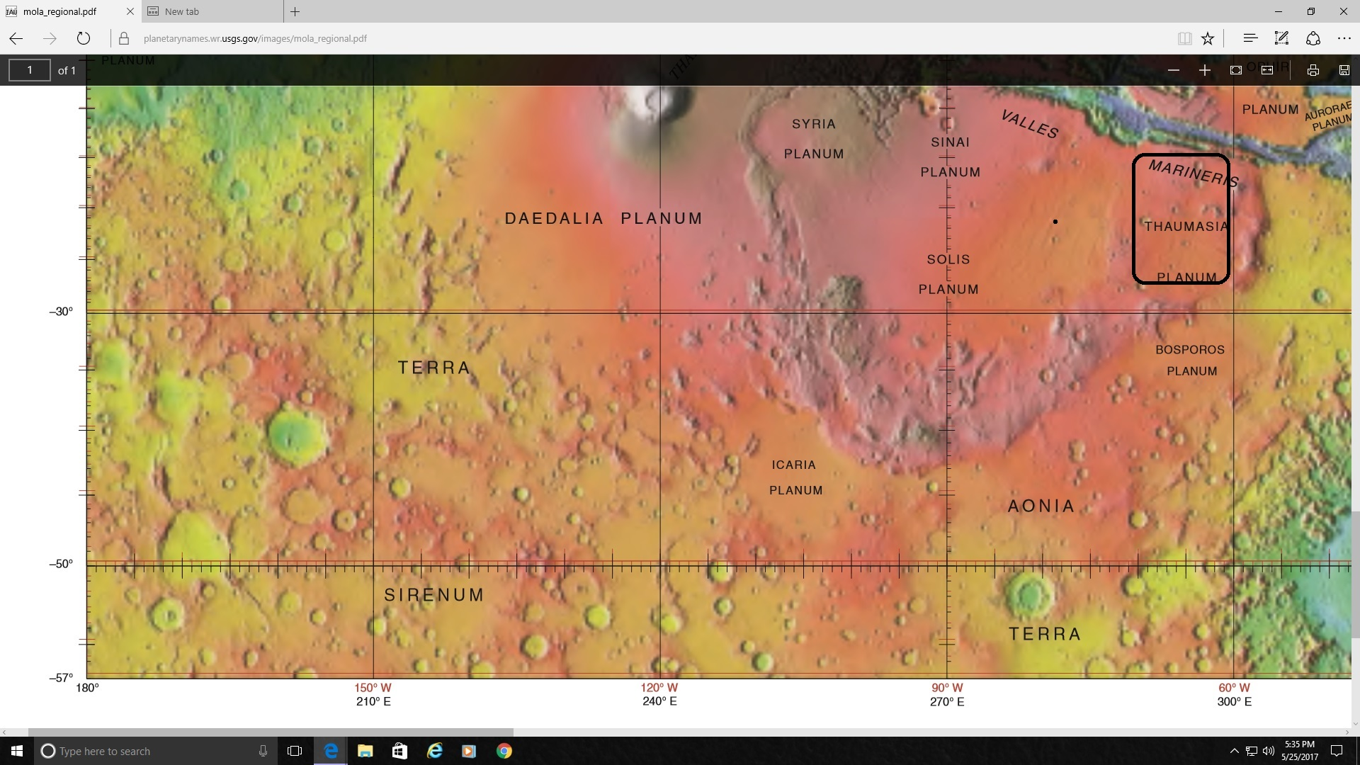 Topographical map showing Thaumasia Planum and surrounding regions. Map produced by NASA and USGS.